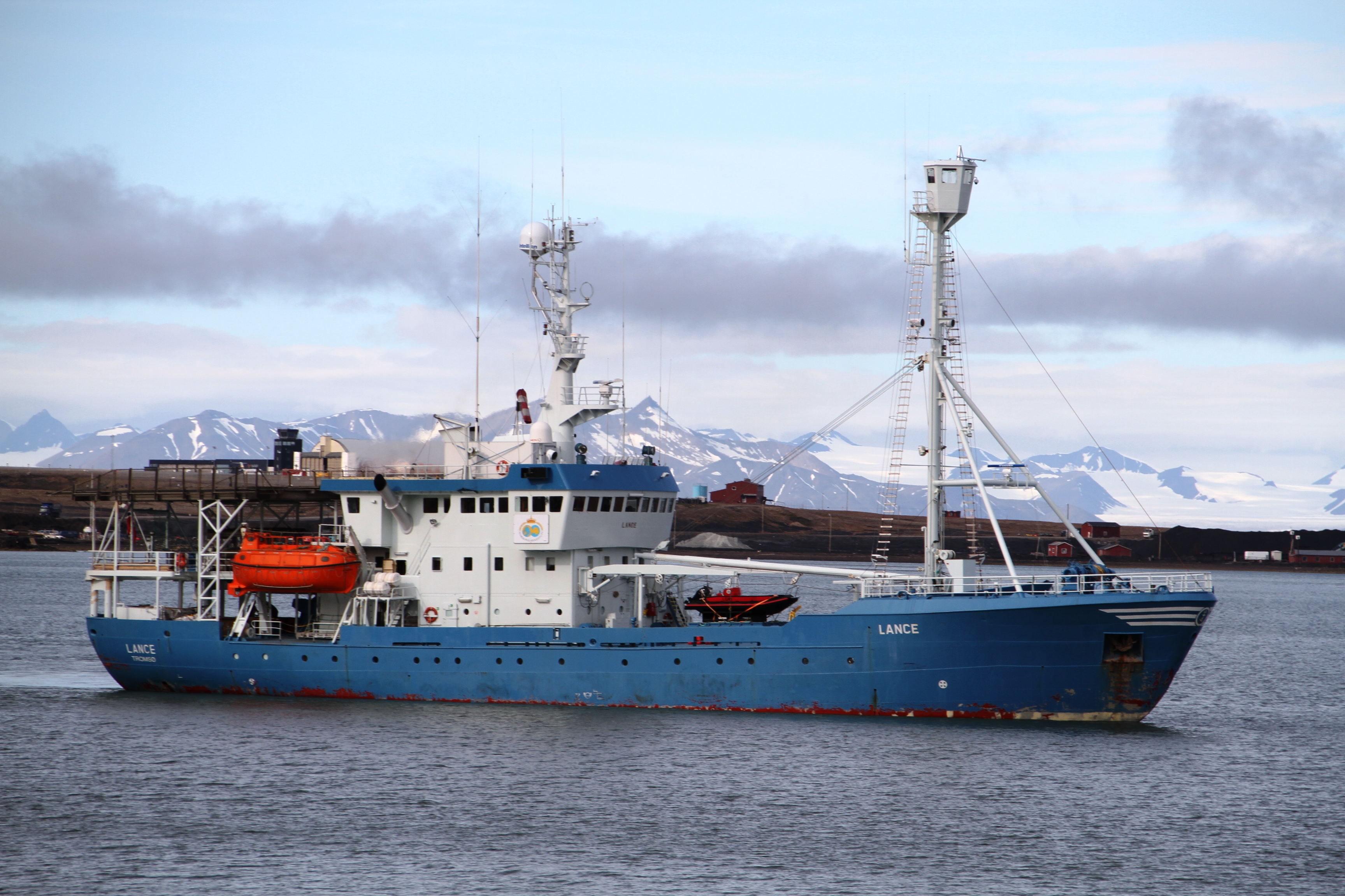 RV Lance ois the research vessel of Polarinstituttet, the Norwegian Polar Research Institute. Here at the Svalbard archipelago (Adventfjorden)